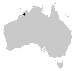 Distribution of Marbled Toadlet (Uperoleia marmorata). This species has not been recorded since 1841 and this map represents the area in which the holotype was found. User:Froggydarb/GFDL-self